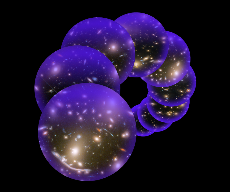 A University of Arizona-led team of scientists generated millions of different universes on a supercomputer, each of which obeyed different physical theories for how galaxies should form.